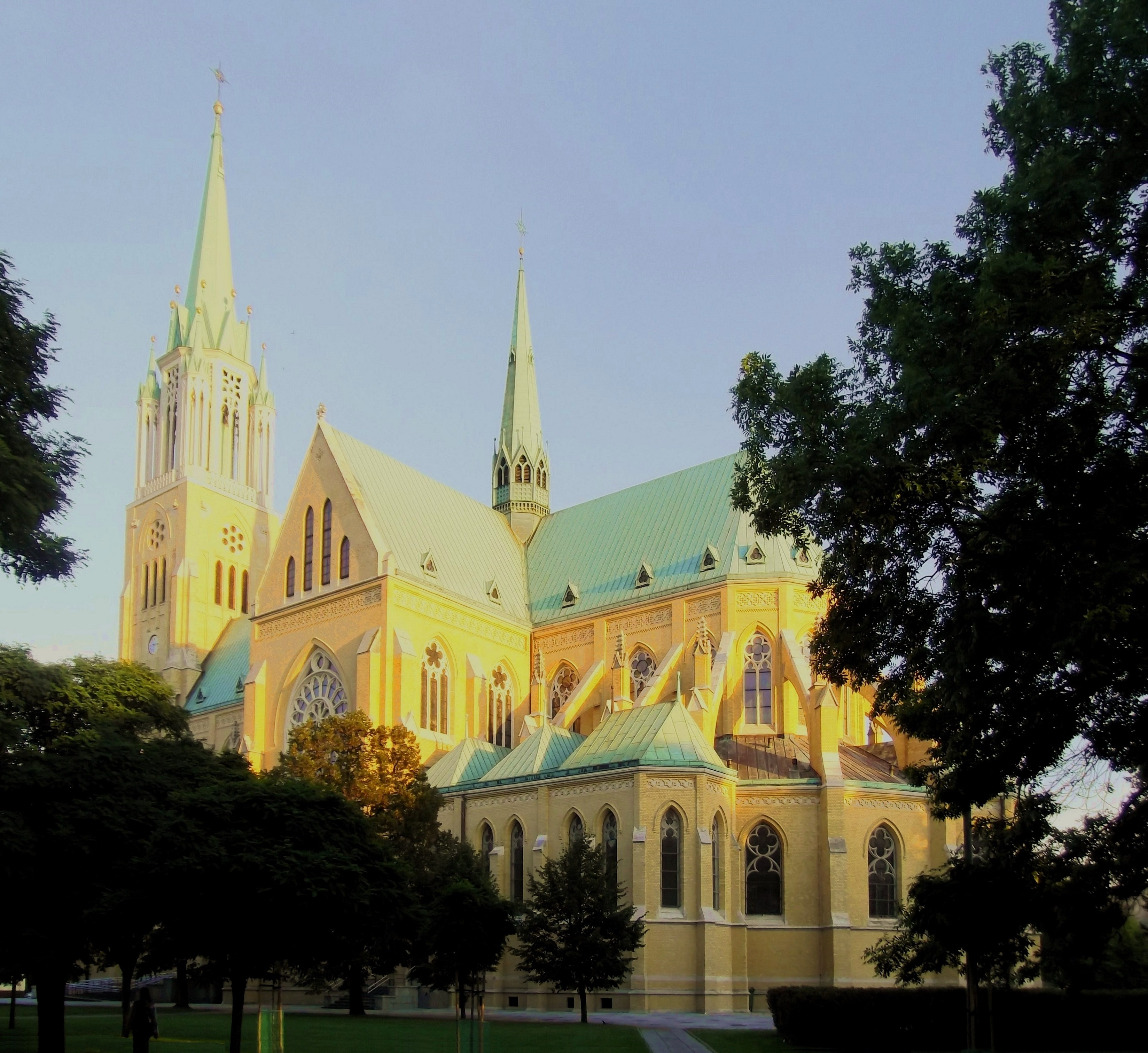 Saint Stanislav Kostka Cathedral, Łódź